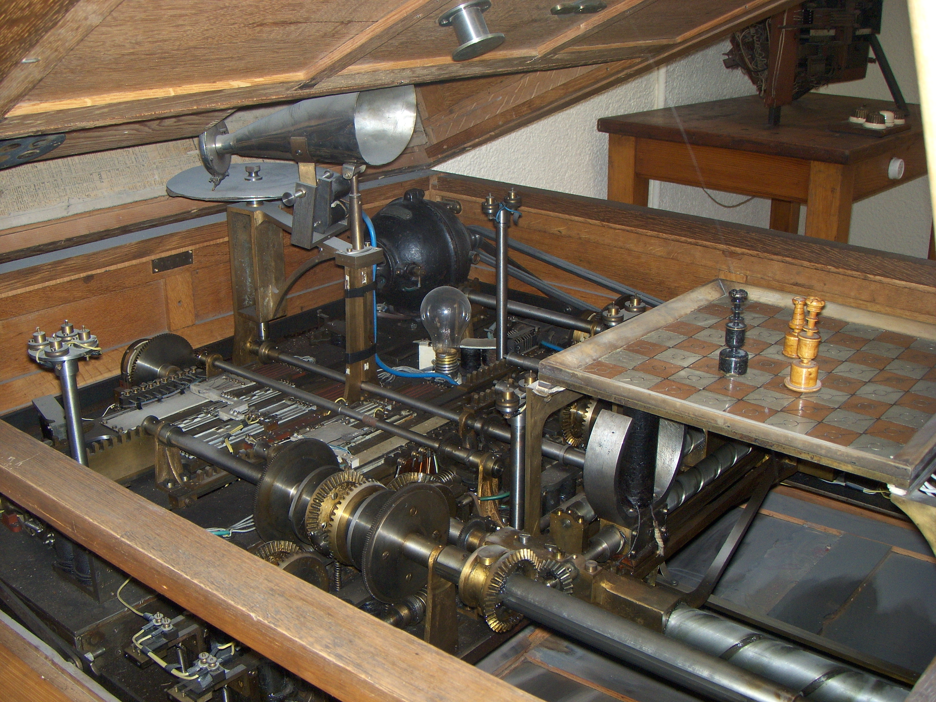 Second chess automata of Leonardo Torres Quevedo at Civil Engineering Faculty museum in Madrid.